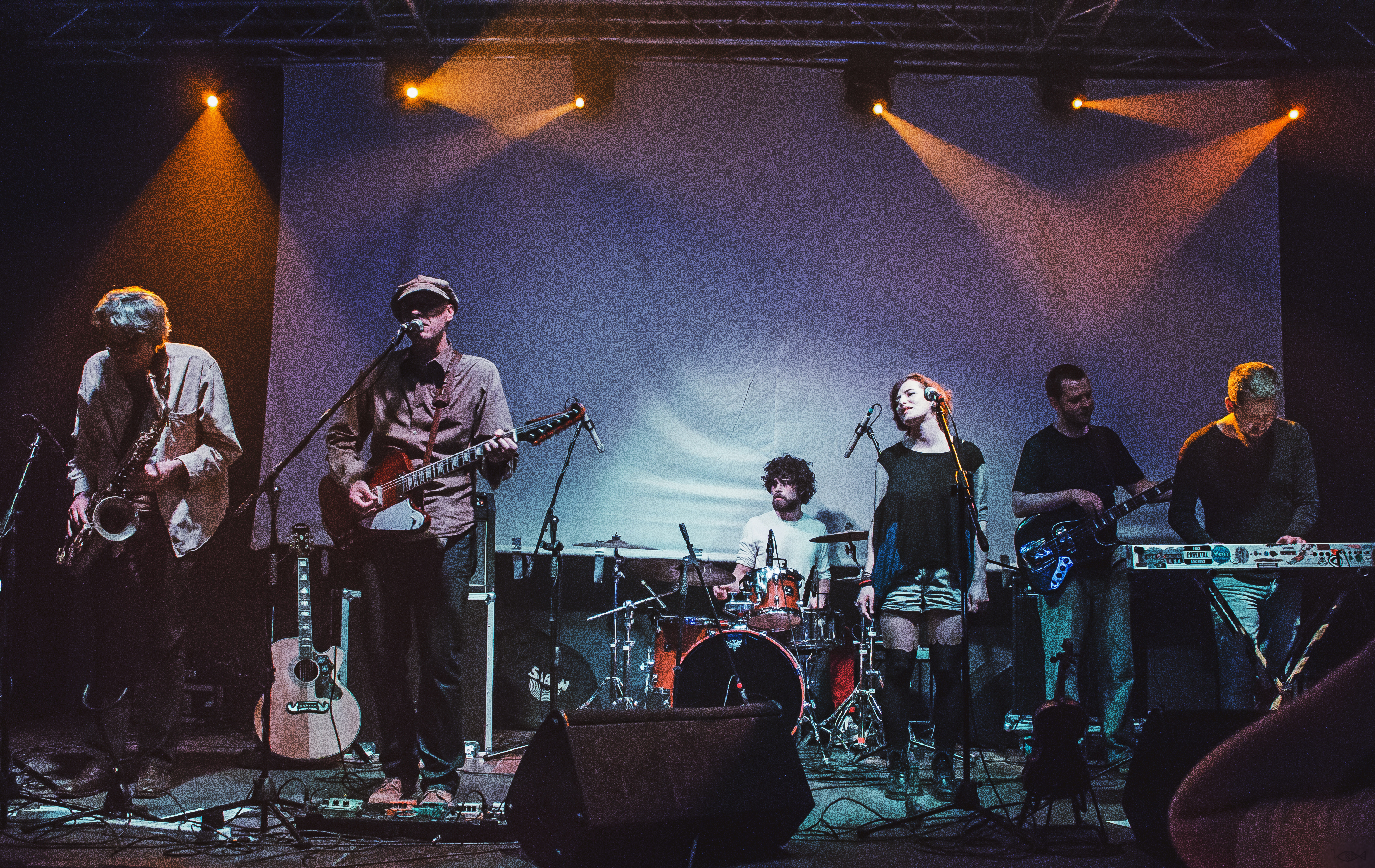 KUMM live at Colectiv, Bucharest - March 27, 2014